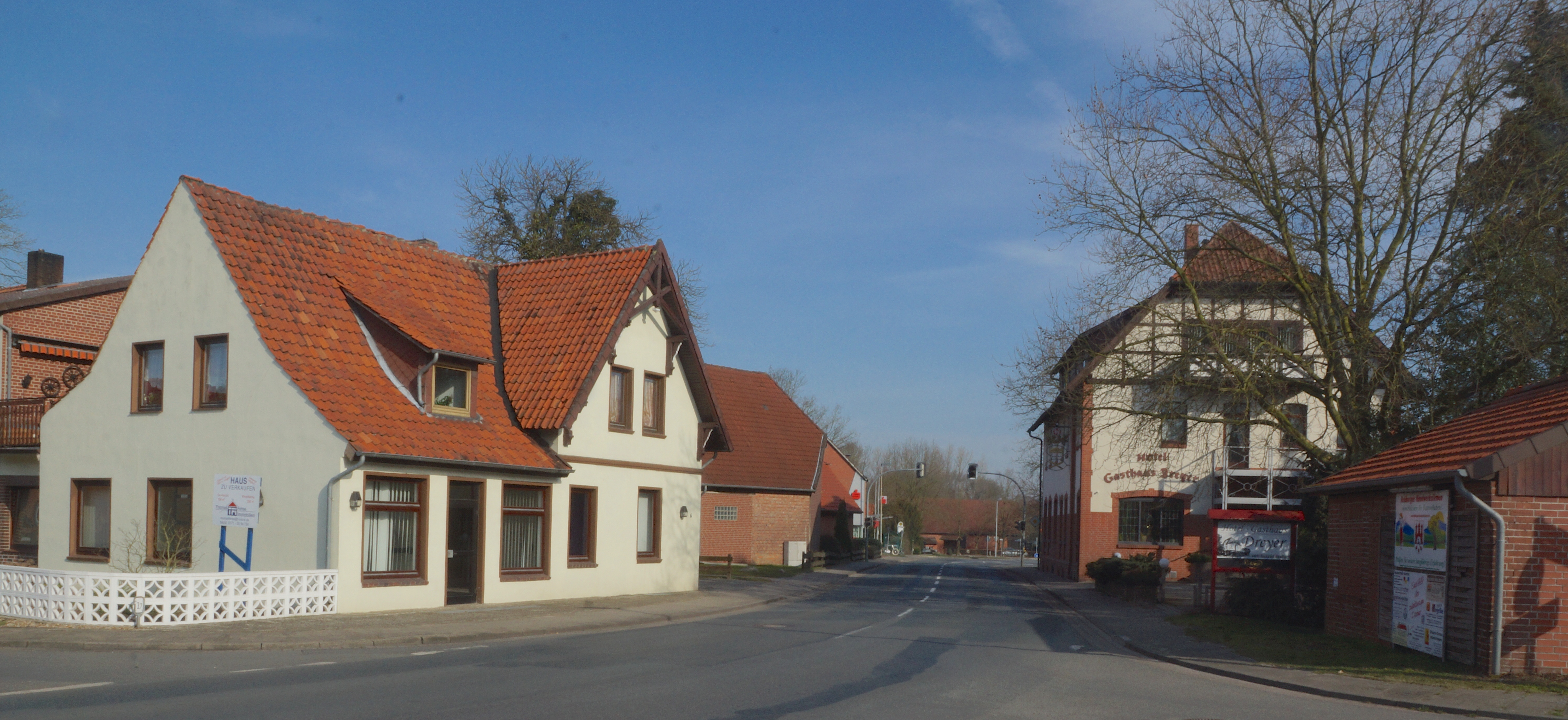 Husum (Nienburg): High Street: Nienburger Strasse